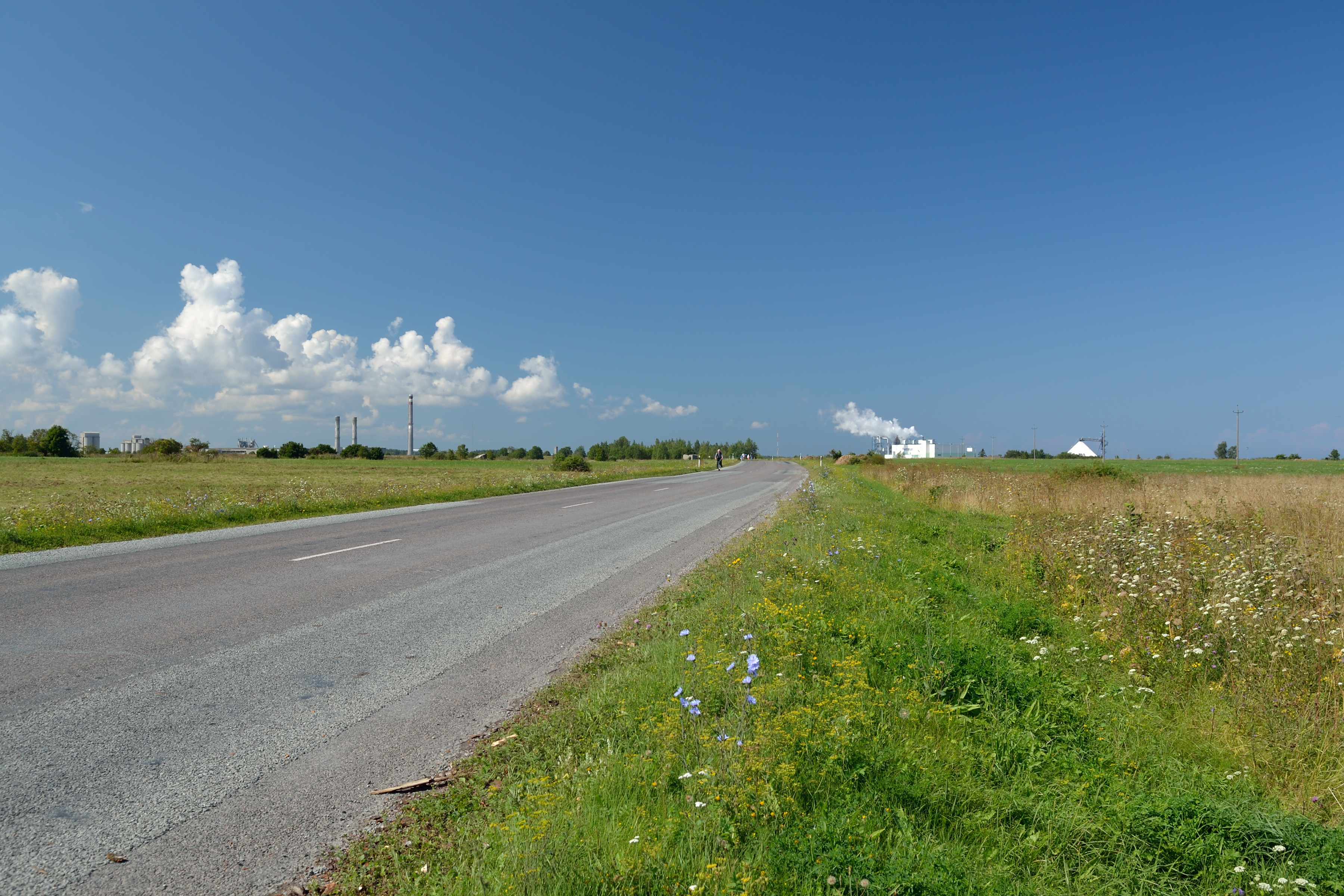 Põdruse–Kunda–Pada road in Malla village (Estonia)